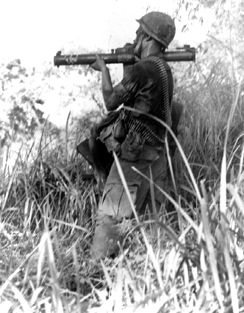 Ignoring enemy fire, SSG Oscar C. Gallegos, Co B, 2nd Bn, 327th Inf, 101st Abn Div, takes careful aim with the M-72 LAW (light anti-tank weapon) during Operation "Wheeler." Vietnam, 1967